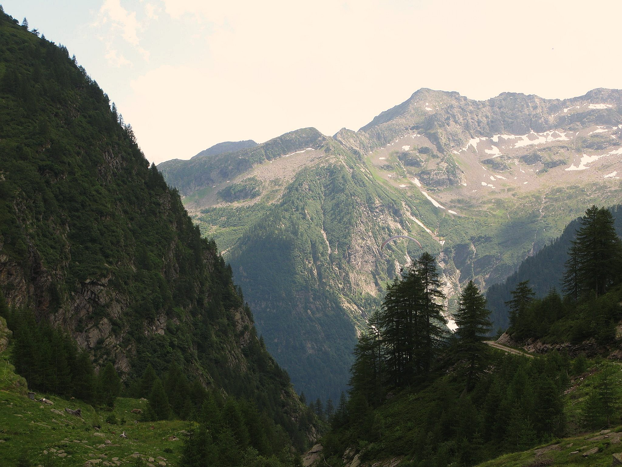 Paragliding above the Peccia valley, Ticino, Switzerland